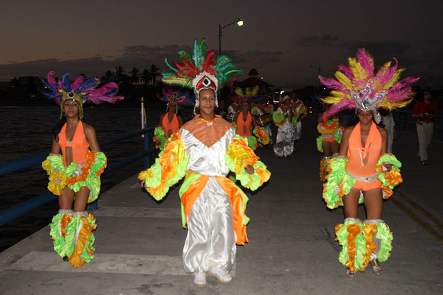 Traditional dancing from Puntarenas